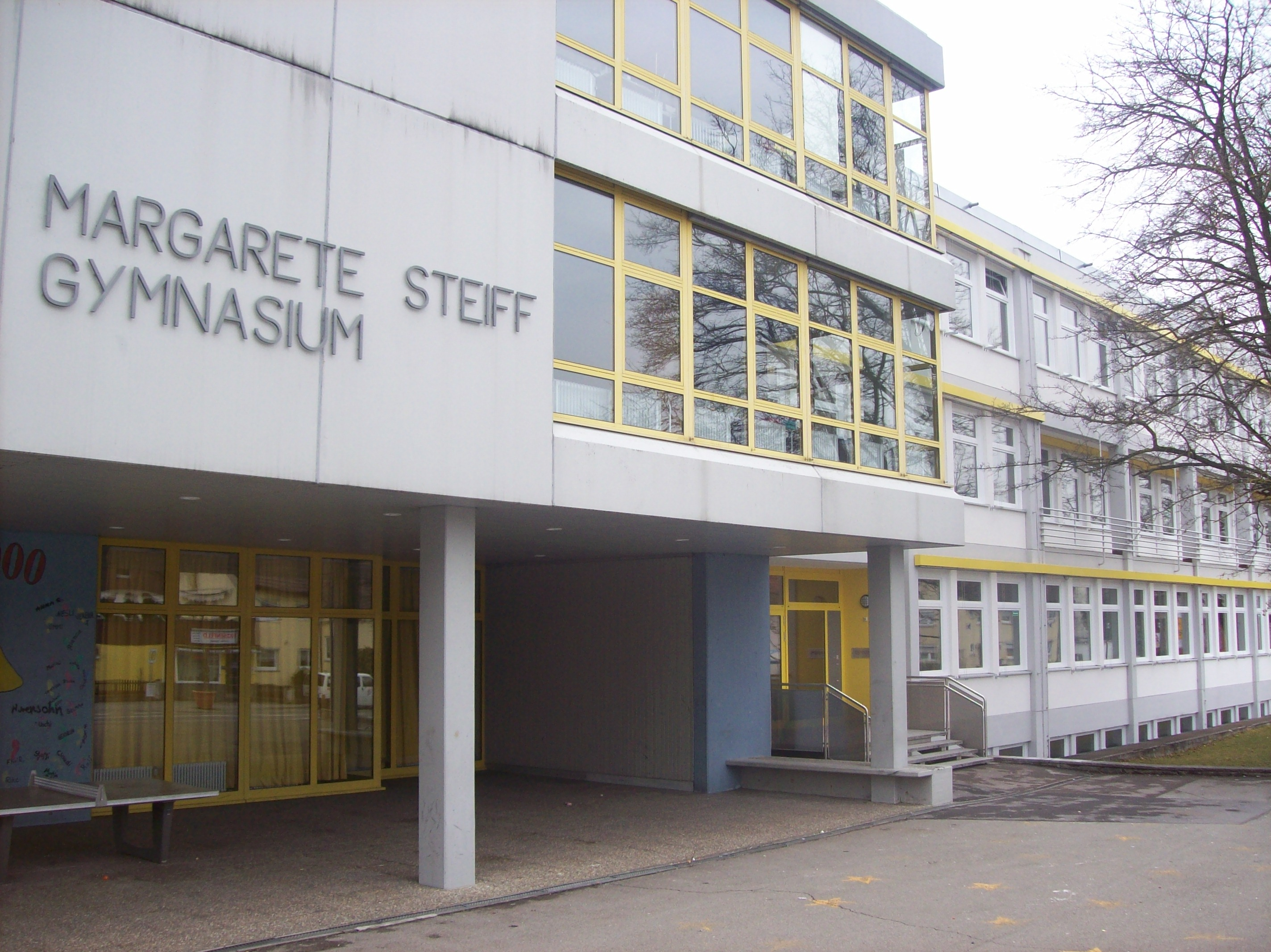 Margarete-Steiff-Gymnasium in Giengen (Germany)